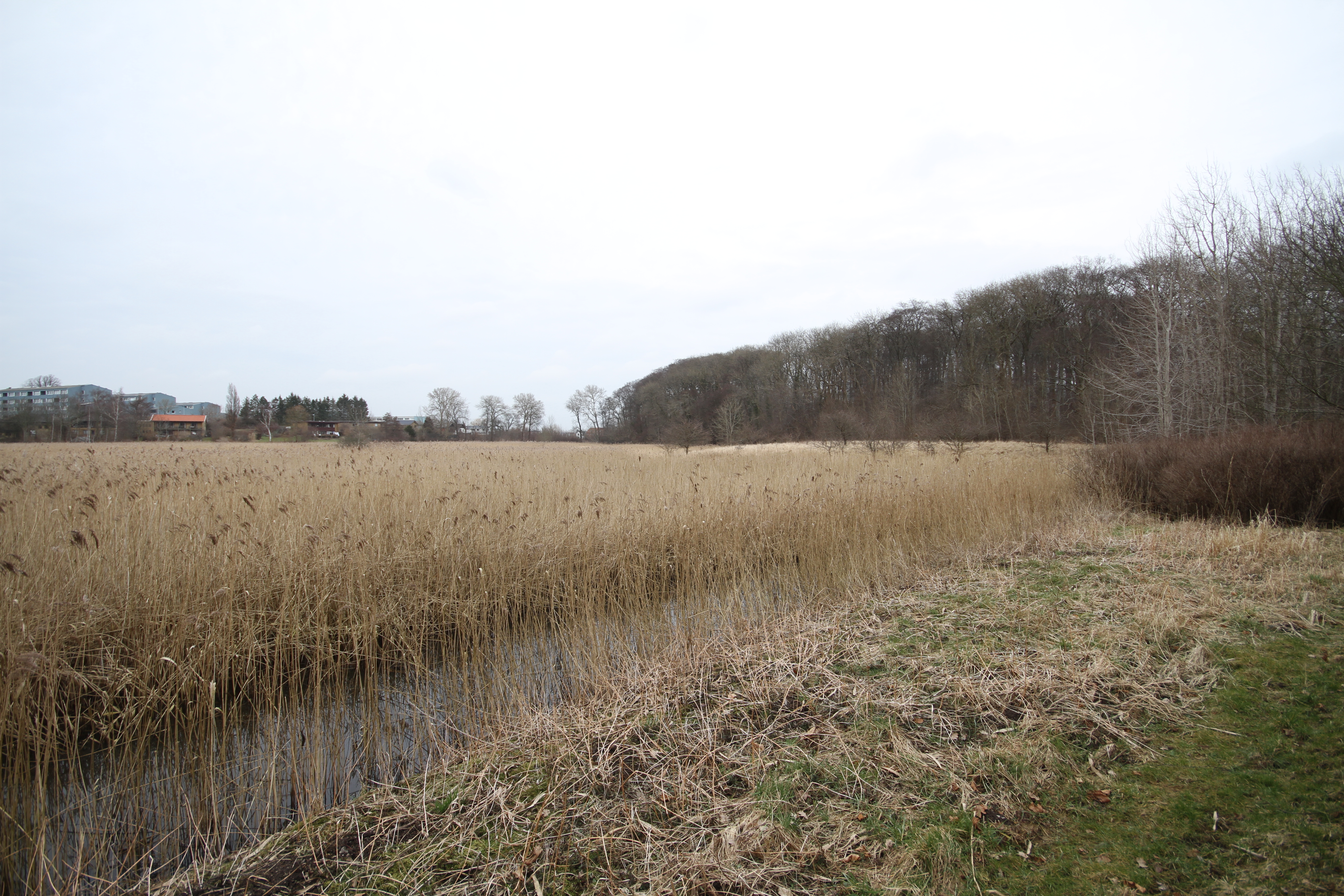 Part of the area which held Næsbyhoved Sø in Odense, Denmark. The lake was dried out in 1863.